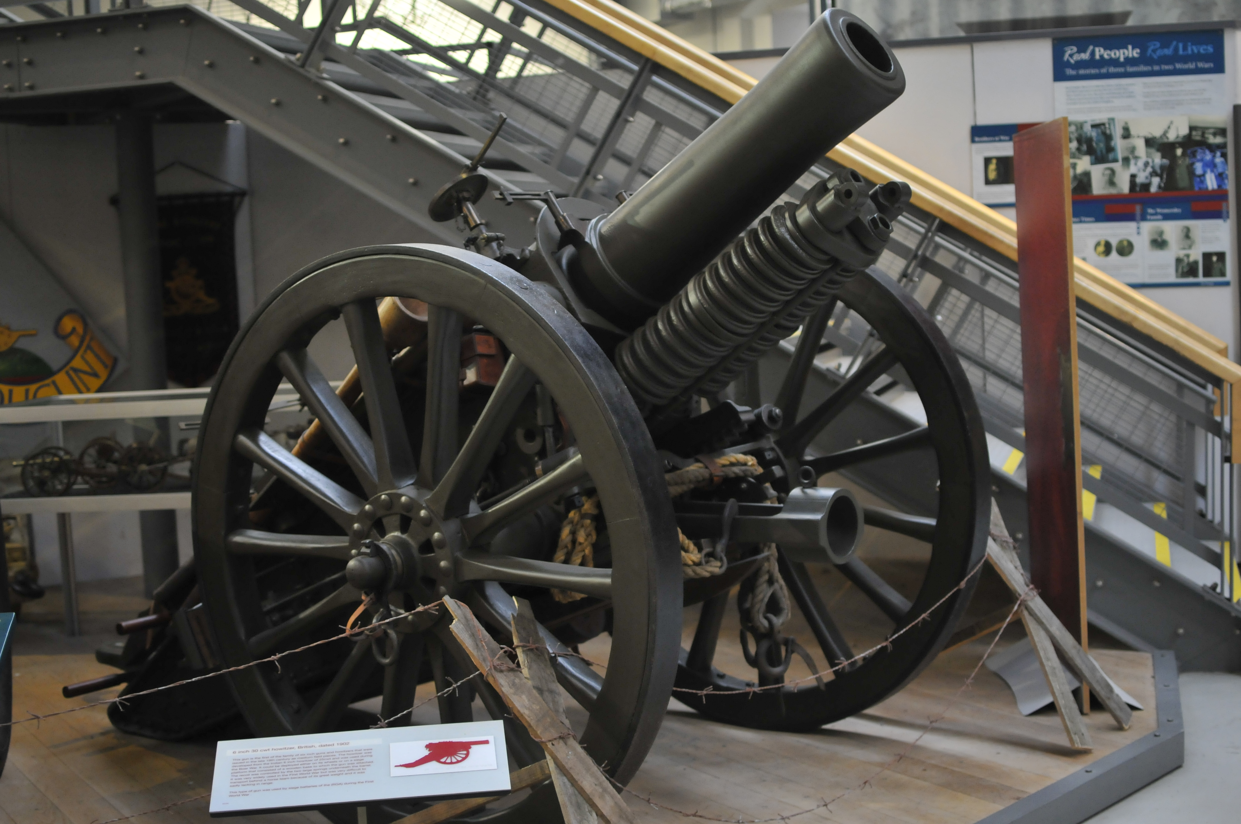 First in a family of six inch guns and howitzers designed and manufactured in the late 19th century as medium field guns. Widely used in the first world war it was was difficult to transport because of its great weight and had a limited range.